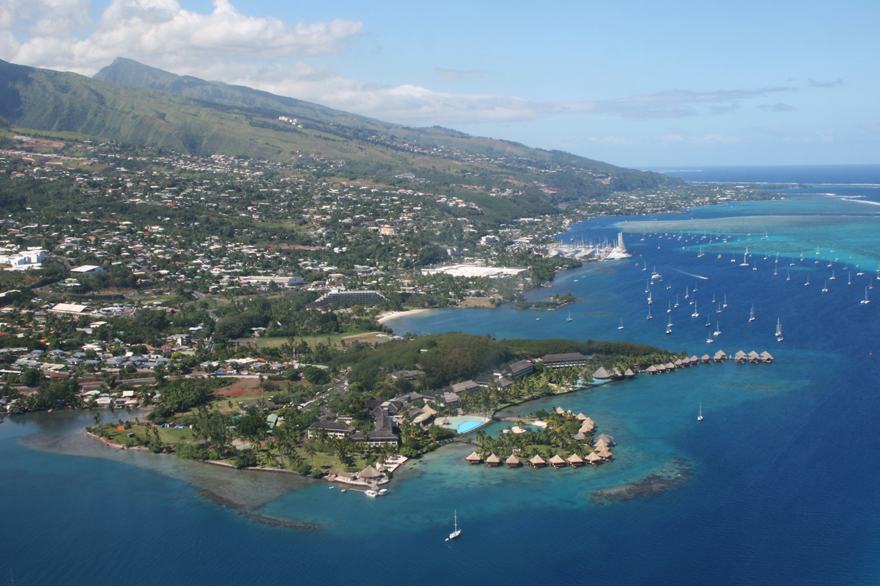 InterContinental Beachcomber à Papeete